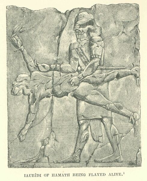 Yahu-Bihdi, governor of Hamath, being flayed alive by the Assyrians. History of Egypt, Chaldea, Syria, Babylonia and Assyria by G. MASPERO, Volume VII., Part C. LONDON: THE GROLIER SOCIETY PUBLISHERS